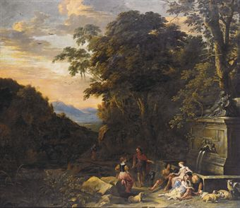 Italianizing landscape with shepherds at a fountain, by Gaspar de Witte, oil on canvas, 179 x 207.5 cm, signed and dated 1654